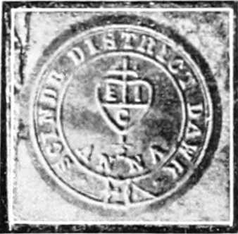 Sindh postage - half anna (Scinde District Dawk)